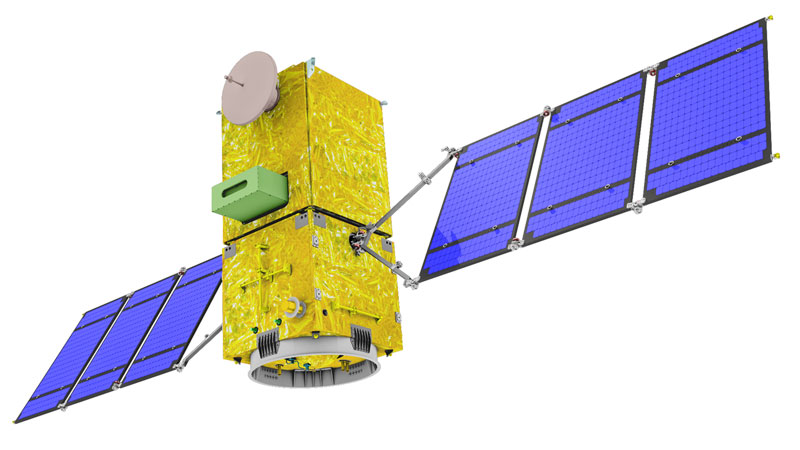 Satellite Amazonia 1 - PMM coupled with Payload Module